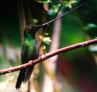 Sword-billed Hummingbird (Ensifera ensifera), at Guango Lodge, Ecuador